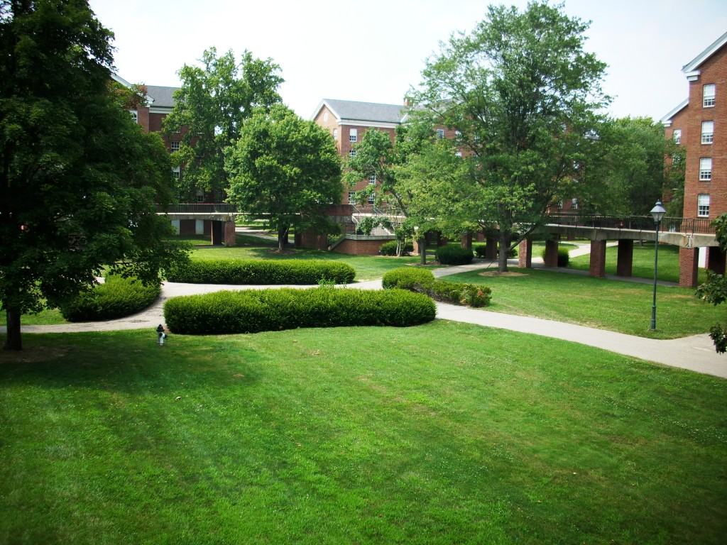 South Green at OU